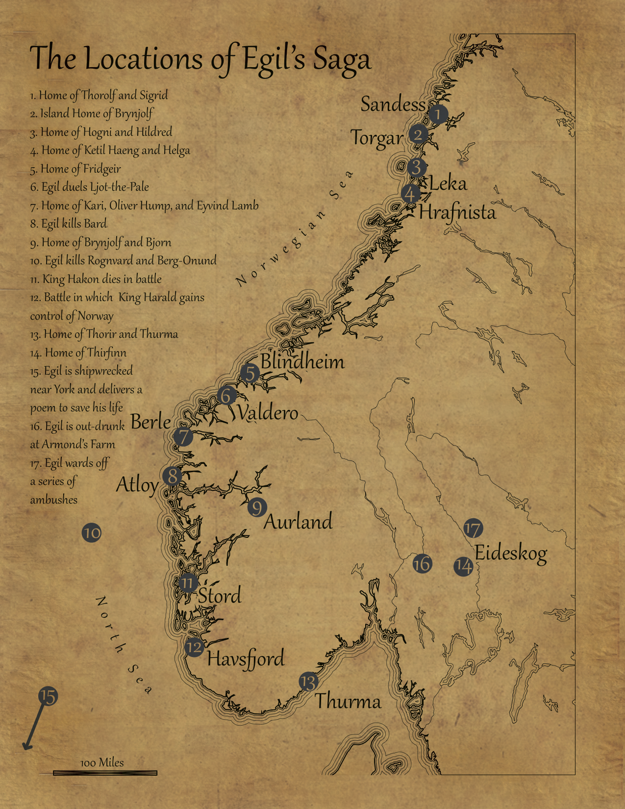 A reference map of Egil's Saga (Norway)